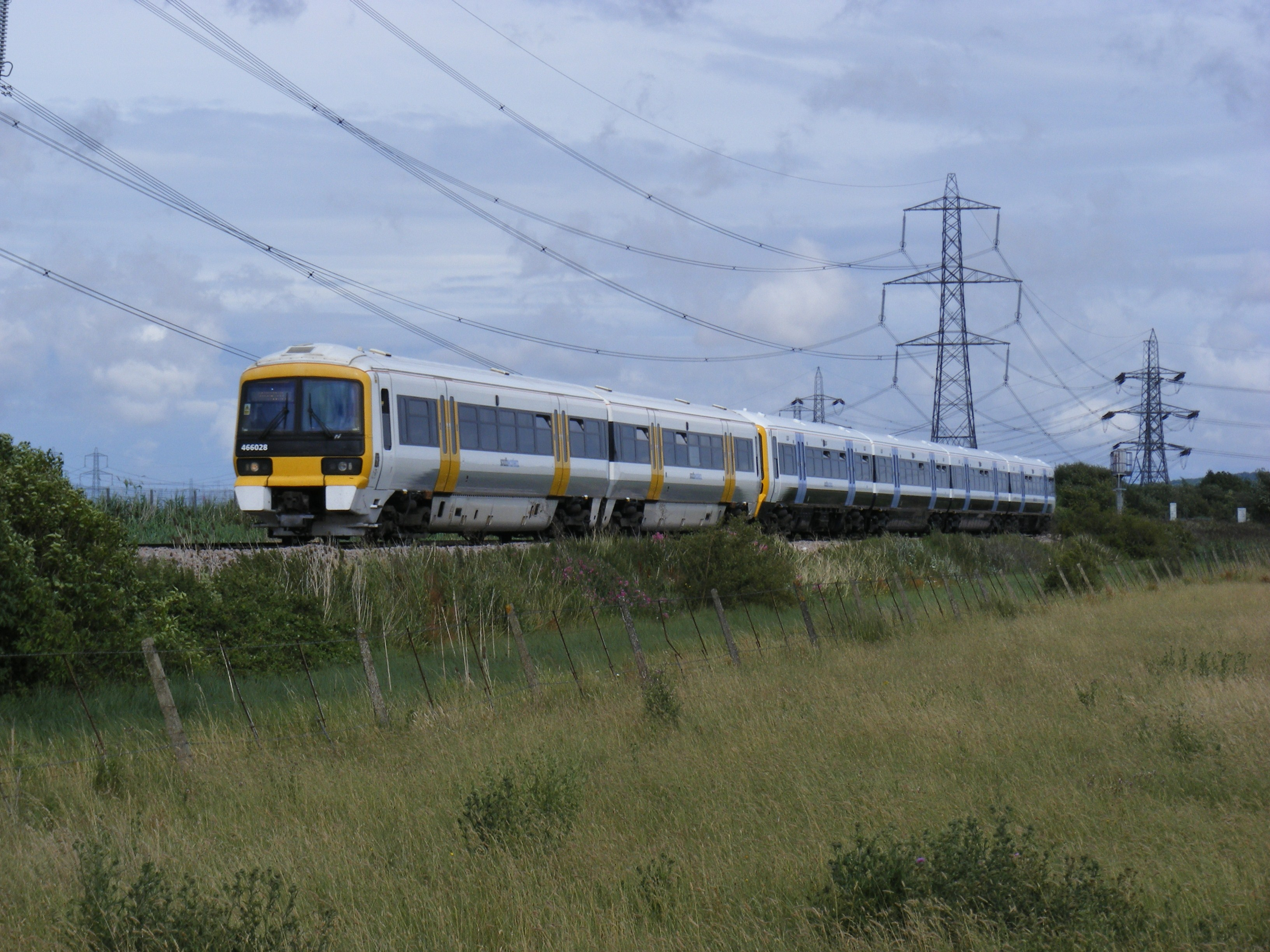 466028 + 465172 Pass Milton Range On 16th July 2011 Working 2A52 15:54 Gillingham - Charing Cross